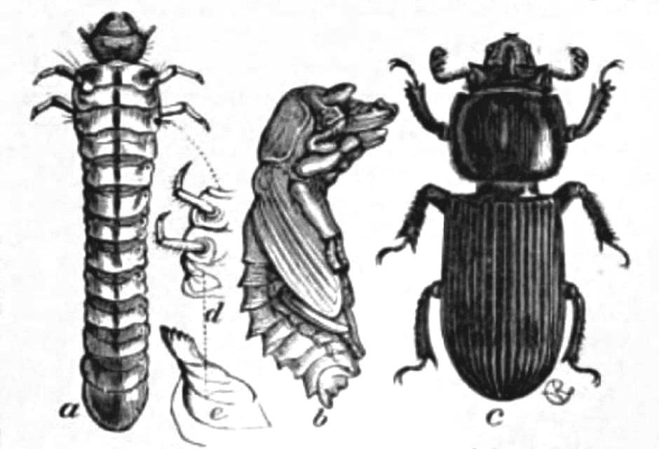 Illustration of the beetle Odontotaenius disjunctus ( = Passalus cornutus) taken from The Century Dictionary and Cyclopedia, a Work of Universal Reference in all Departments of Knowledge With a New Atlas of the World (1896); page 2885. Aː larva; Bː pupa; Cː beetle; Dː underside of three thoracic joints of larva, showing the legs; Eː metathoracic leg of larva.